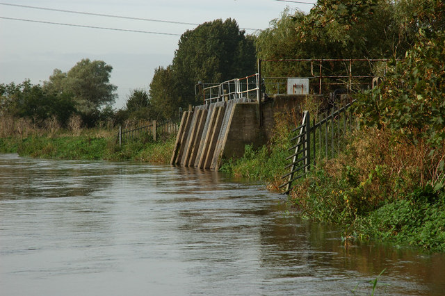 Cooling water intake for the now demolished power station at Willington, Derbyshire, England. The warm water was released back into the river further downstream, and the number of power stations along the Trent Valley resulted in the temperature of the river being kept artificially high.